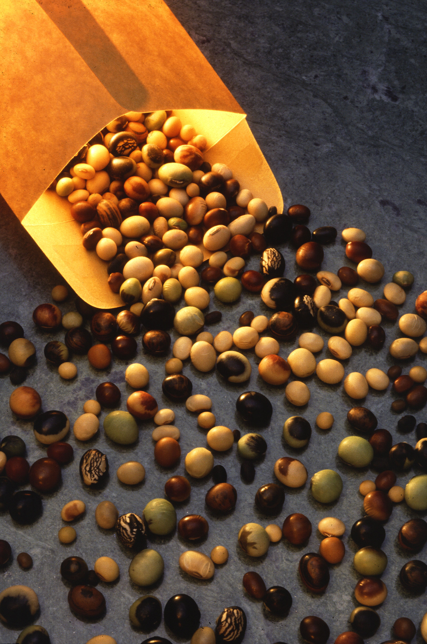 Varieties of soybeans (Glycine max). Soybeans are practically as much a part of American life as baseball. They're grown today in more than half the United States. Yet, a hundred years ago, they were virtually unheard of-raised only by a handful of innovative farmers. These seeds, from the National Soybean Germplasm Collection housed at Urbana, Illinois, show a wide range of colors, sizes, and shapes.